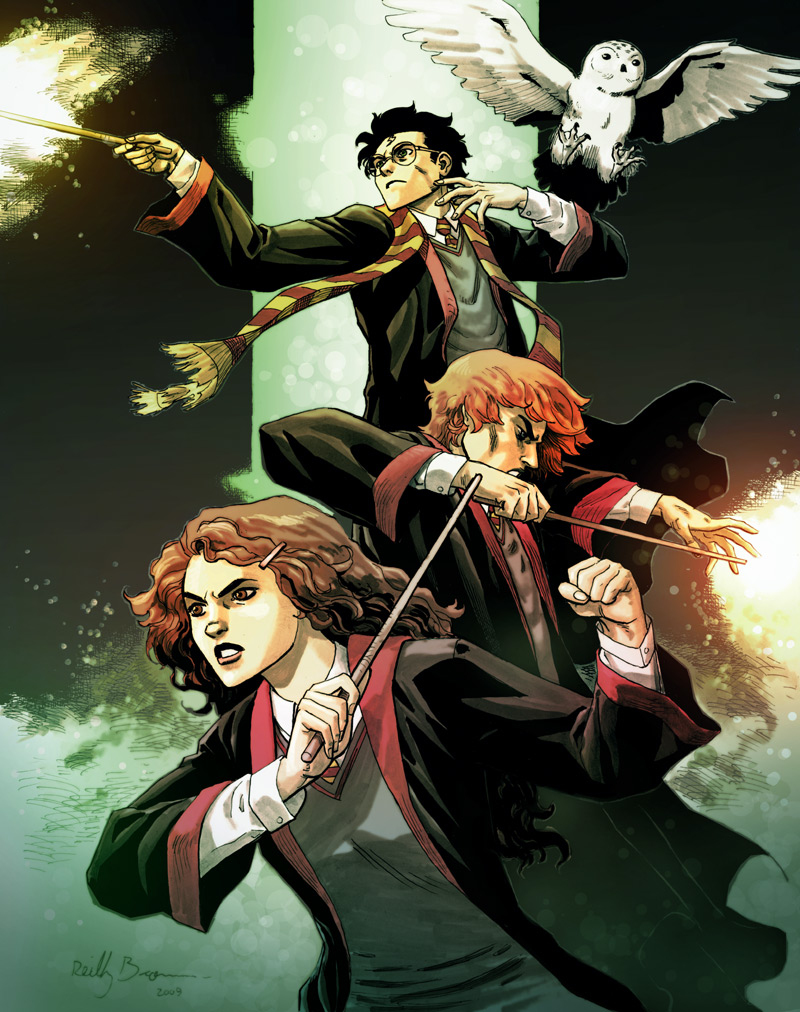 Harry Potter, Ron Weasley and Hermione Granger. Fan art by Reilly Brown.